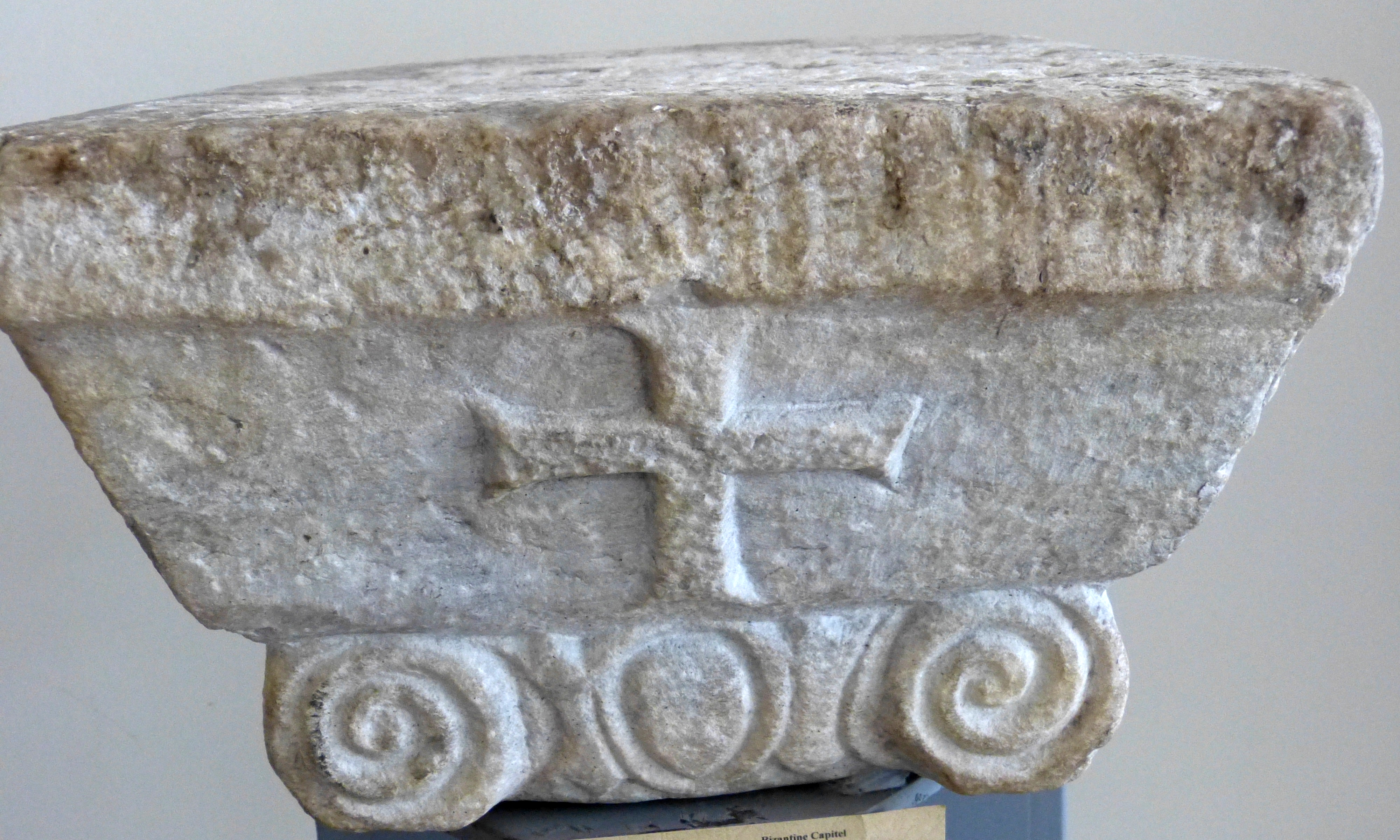 Korçë ( Albania ). National Museum of Medieval Art - Lapidarium: Byzantine capital from Durres.